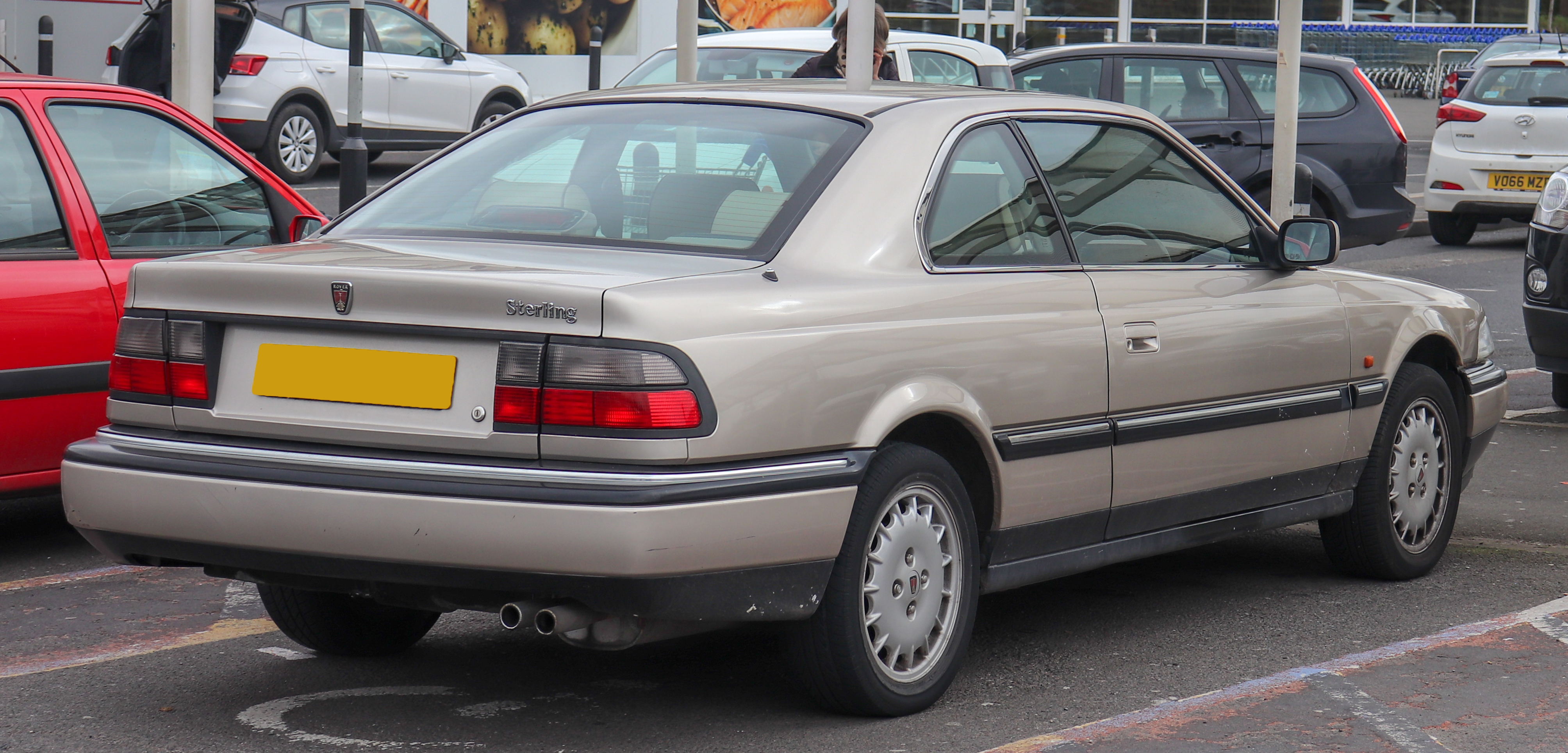 1999 Rover 825 Sterling Coupe Automatic 2.5 Taken in Warwick